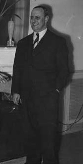 Isidro J. Odera- periodista y locutor